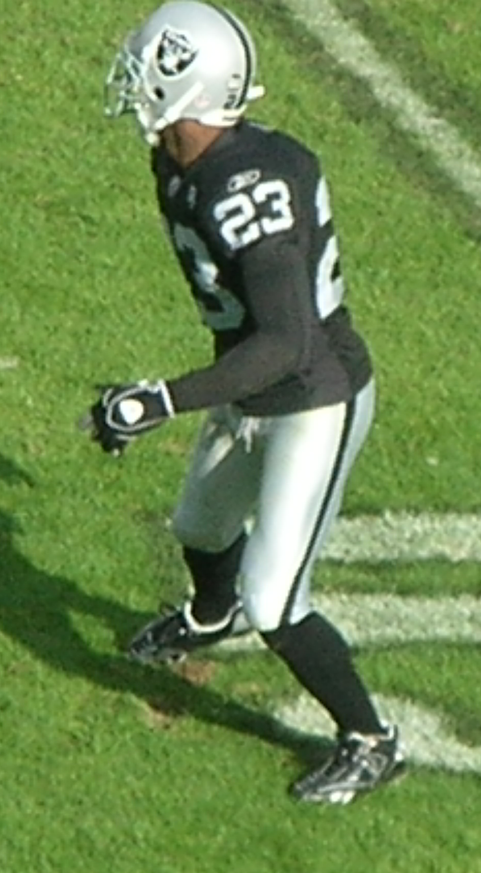 Oakland Raiders cornerback DeAngelo Hall at a home game against the Atlanta Falcons. This was the last game that Hall played for the Raiders before being cut by the team on November 5. The Falcons won 24-0.